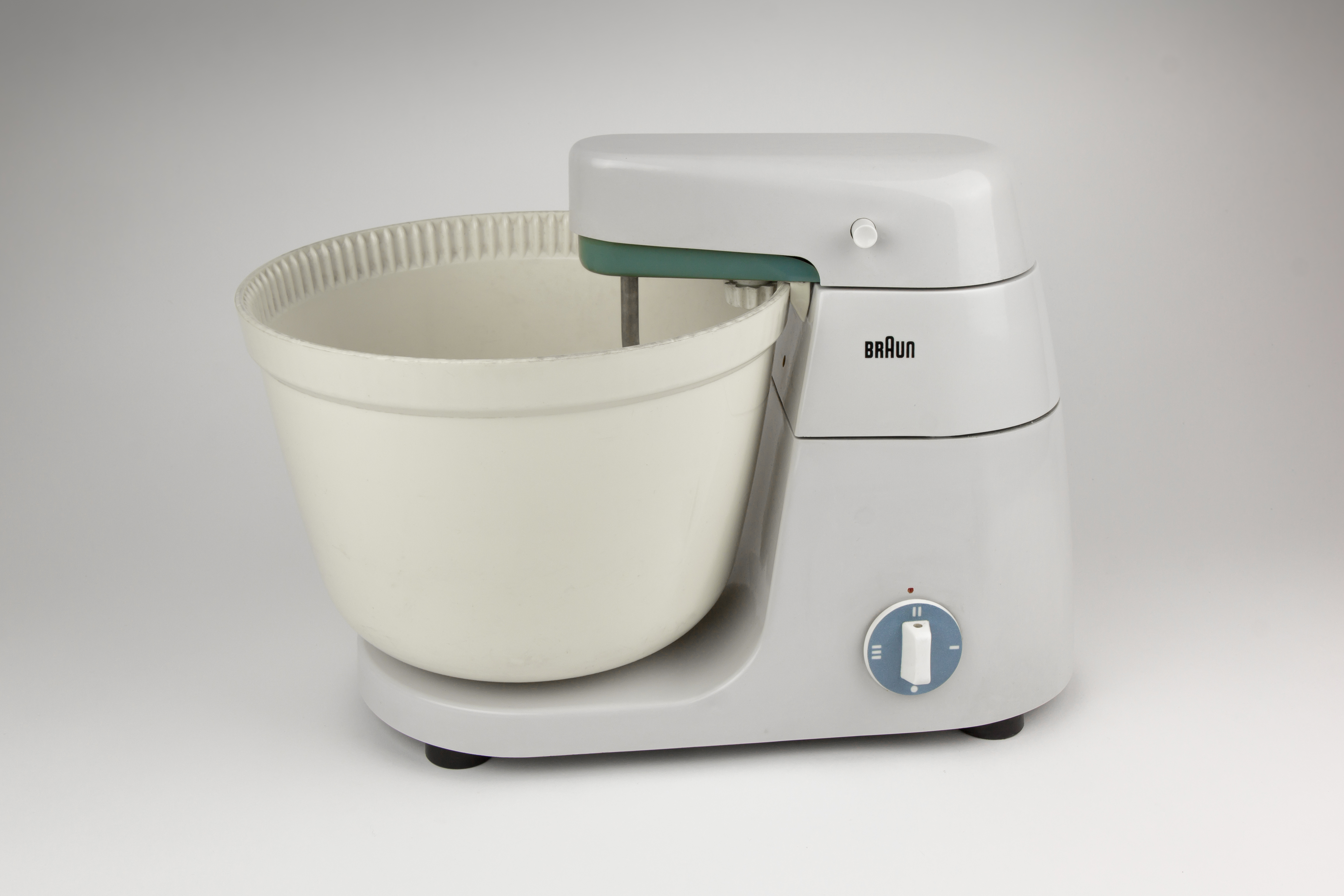 Braun KM 3 food processor (1957–1964) Full assembly with bowl and dough hook.